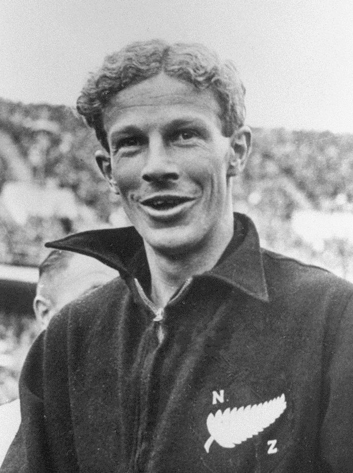 John Lovelock of New Zealand relaxes in the Olympic Stadium during the 1936 Olympic Games in Berlin. Lovellock won the gold medal in the 1500 metres event